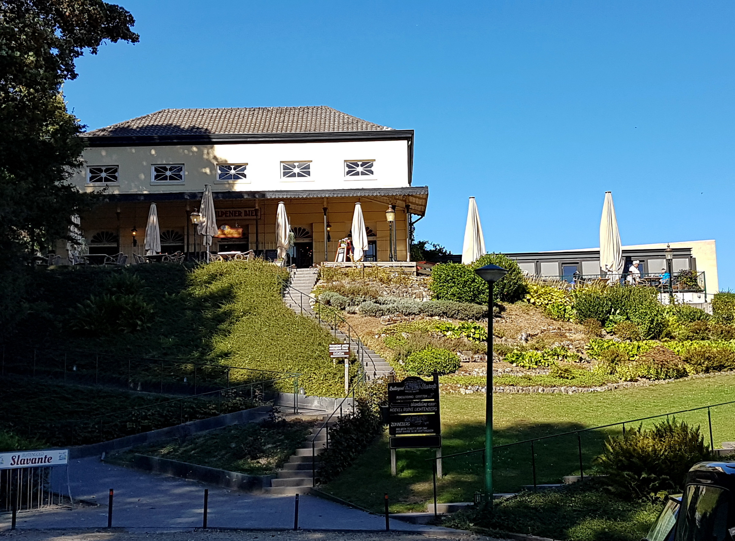 View of Buitengoed Slavante, a 19th-century gentlemen's club, now a café and restaurant on the east slope of Mount Saint Peter in Maastricht, Netherlands.